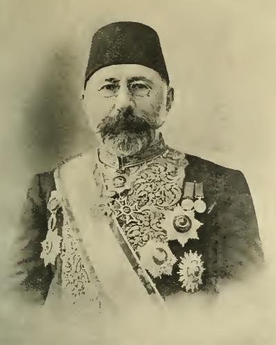 An Ottoman Biographical Publication for Government Officials